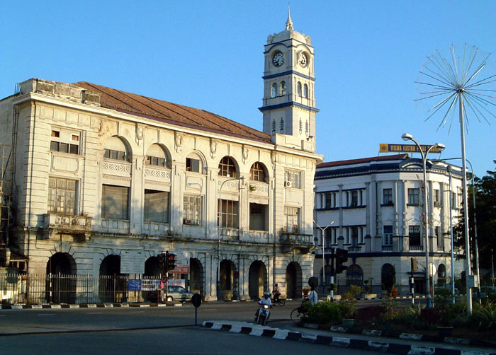 Old Railway Station at Weld Quay in George Town, Penang